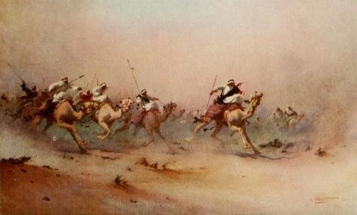 Storm Driven (watercolour)